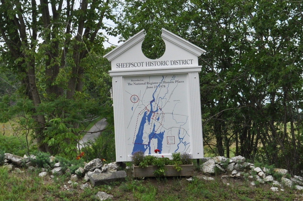 Marker depicting the boundaries of the Sheepscot Historic District of Alna and Newcastle, Maine. Marker is located in Newcastle.